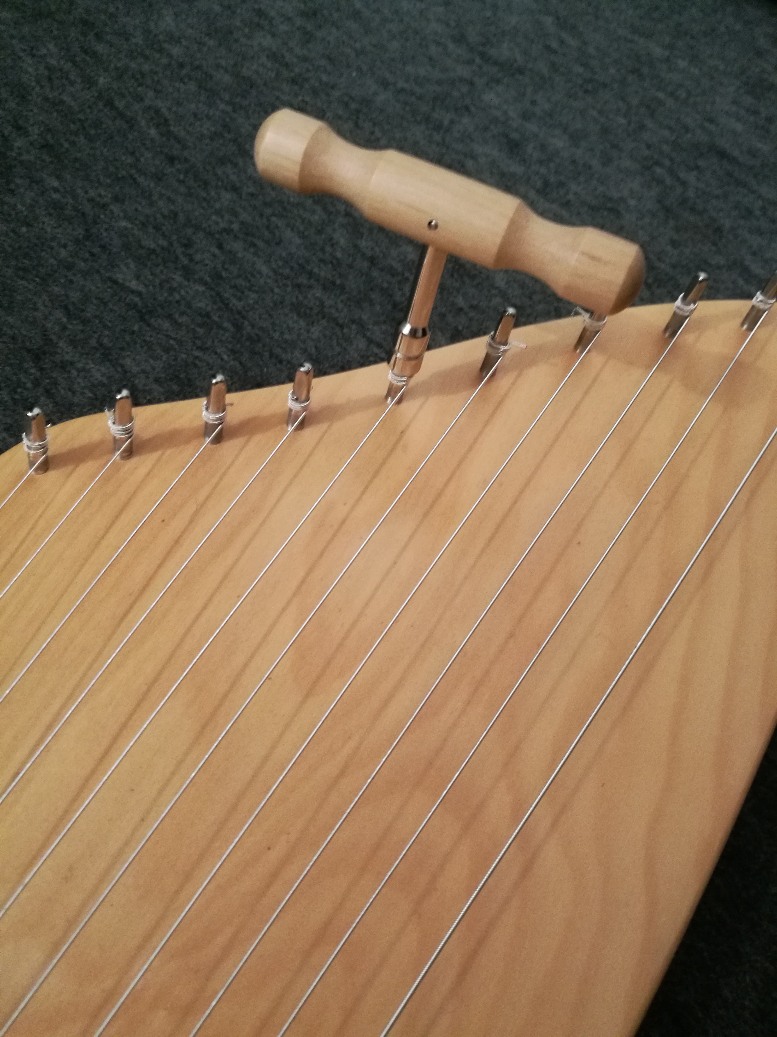 Tuning mechanisms with Cantele